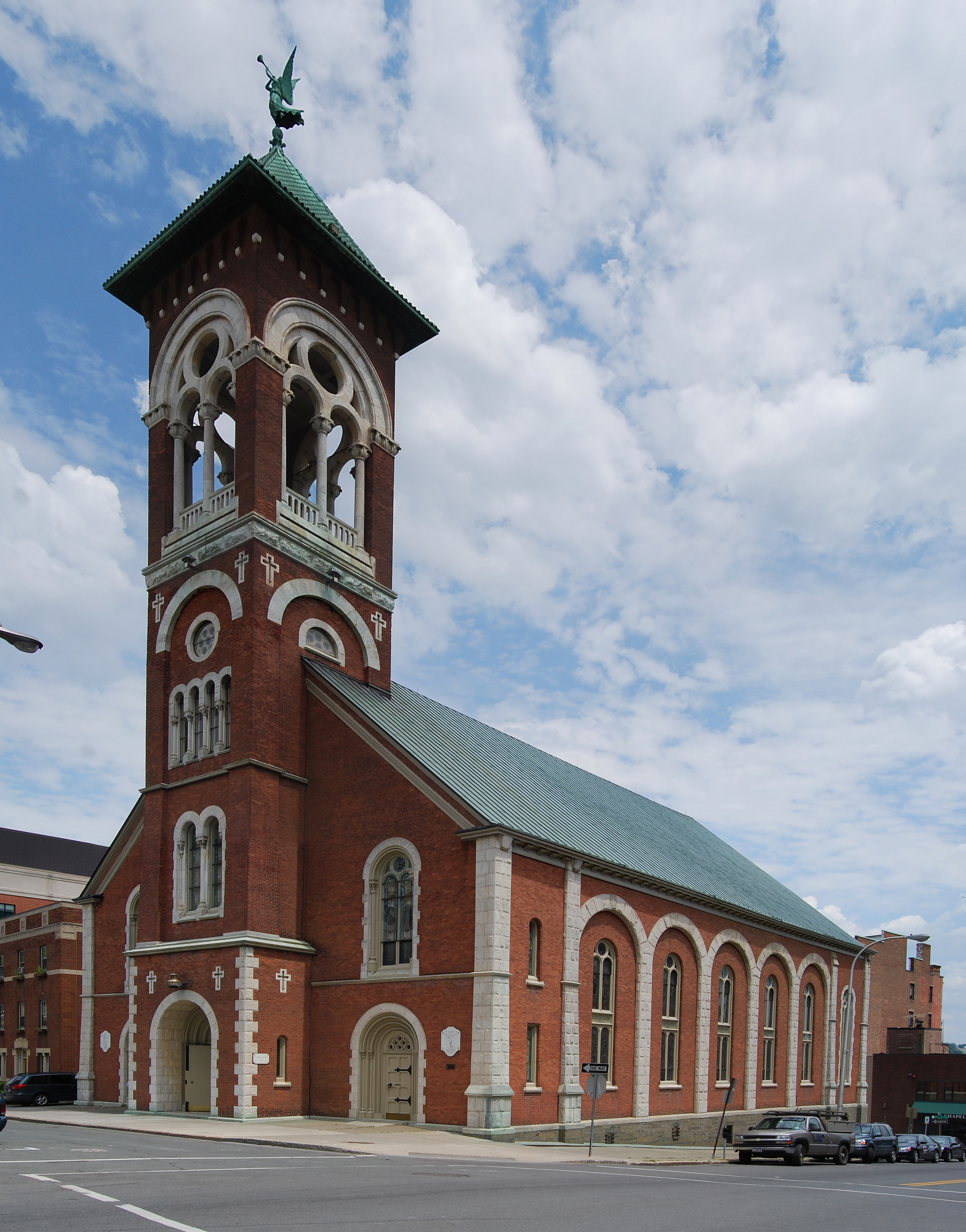 St. Mary's Catholic Church on Lodge Street in Albany, New York, United States. It was built in 1867 (and its tower completed in 1894), and added to the National Register of Historic Places in 1977.